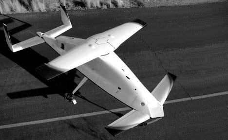 X-50 Dragonfly